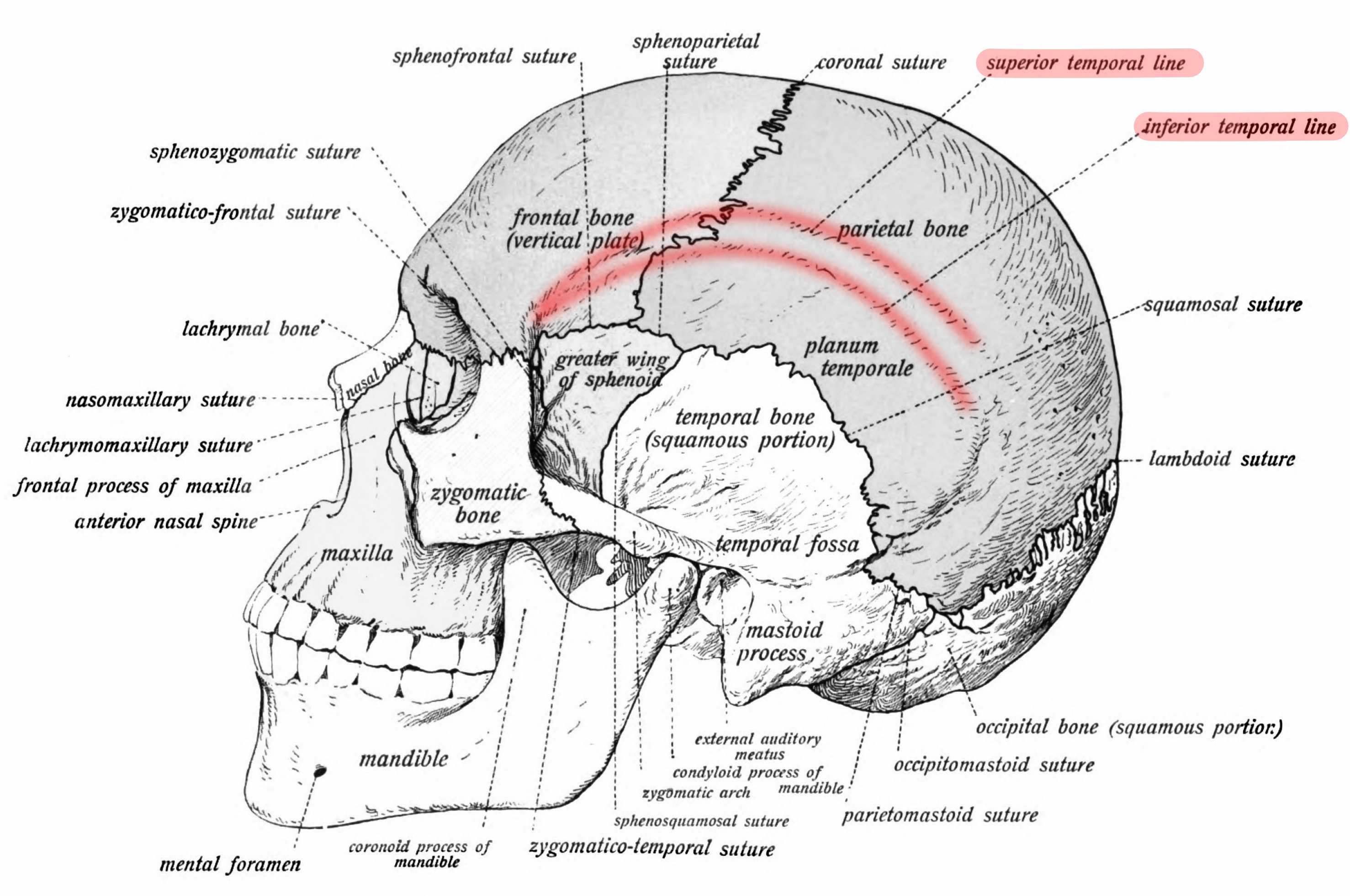 Temporal line